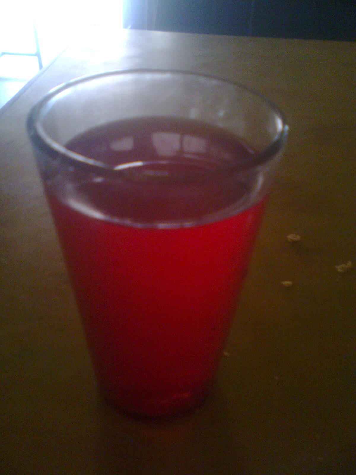 This is a glass of Kokam juice.